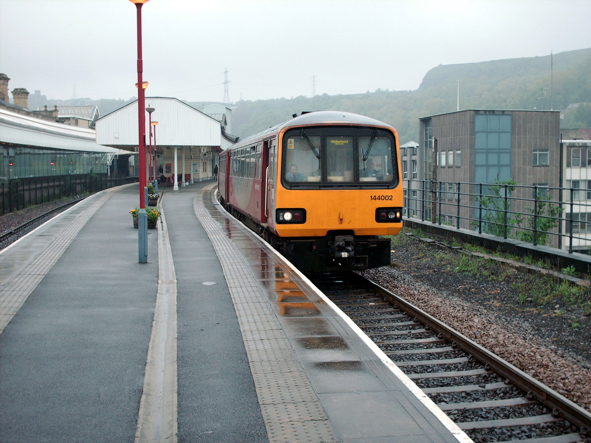 Halifax Railway Station, England